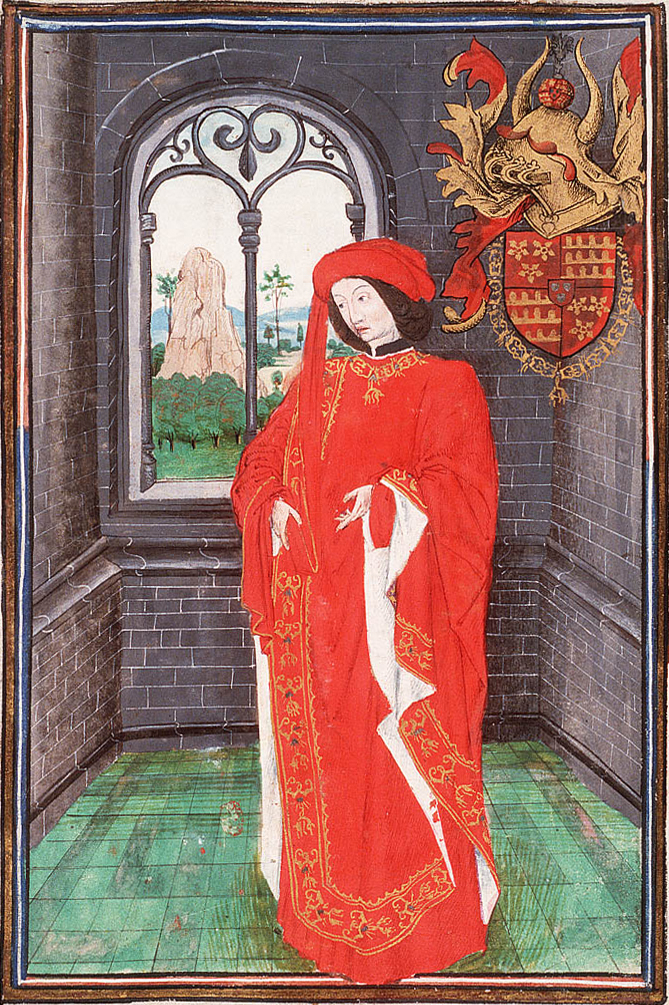 Statuts, Ordonnances et Armorial de l'Ordre de la Toison d'Or (Statutes, Ordonnances and armorial of the Order of the Golden Fleece) Place of origin, date: Southern Netherlands; 1473. Added sections: Southern Netherlands; 1478 or shortly after and 1491 or shortly after Material: Vellum, ff. 86, 249x187 (167x106) mm, 23 lines, littera cursiva (lettre bourguignonne). French. Binding: 18th-century brown leather Decoration: 1 full-page miniature (170x115 mm) with border decoration; 92 miniatures (185/155x120/100 mm); 1 historiated initial (80x90 mm) with border decoration; decorated initials with border decoration (ff., Added section: miniatures ; 4 drawings for miniatures (not finished) Provenance: Presented in 1473 by Gilles Gobet, King of Arms of the Order of the Golden Fleece, to Charles the Bold, Duke of Burgundy and the other Knights during the Chapter of the Order held at Valenciennes; Treasure of the Golden Fleece, Brussls; taken away by the Treasurer C.-F. Humyn (d. 1735) or his daughter C.Ch. de Corte; by legacy to her daughter M.-L. de Corte, wife of Ph.-E. de Poederlé; purchased in 1781 at the Poederlé sale by G.-J- Gérard of Brussels; acquired in 1832 as part of the Gérard collection (no. A 27)